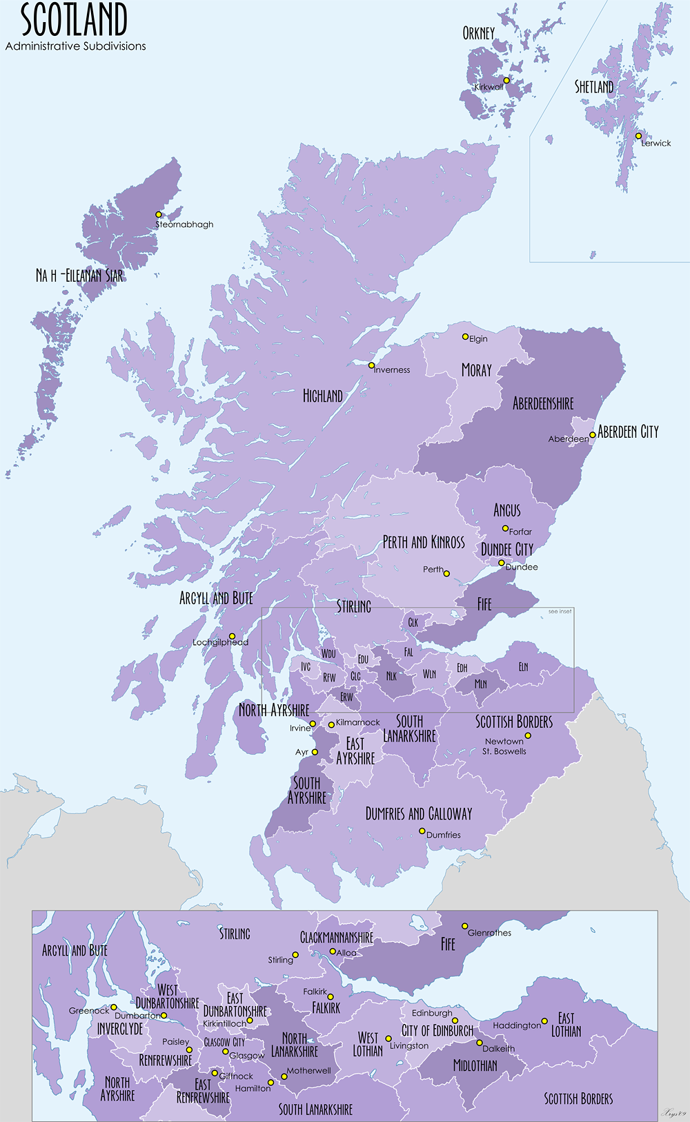 Map of the administrative divisions of Scotland